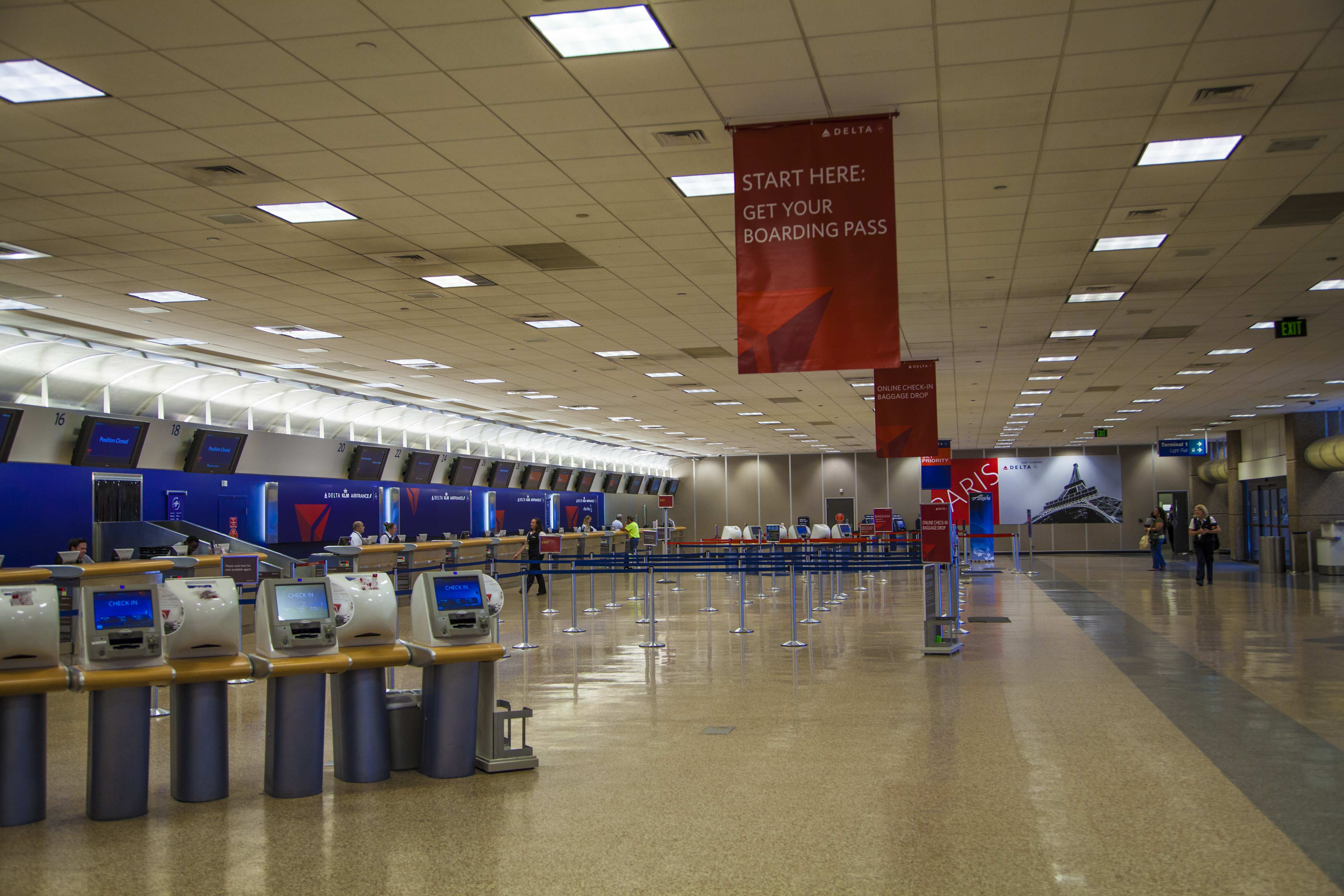 Salt Lake City International Airport Terminal 2 in Salt Lake City, Utah, USA.